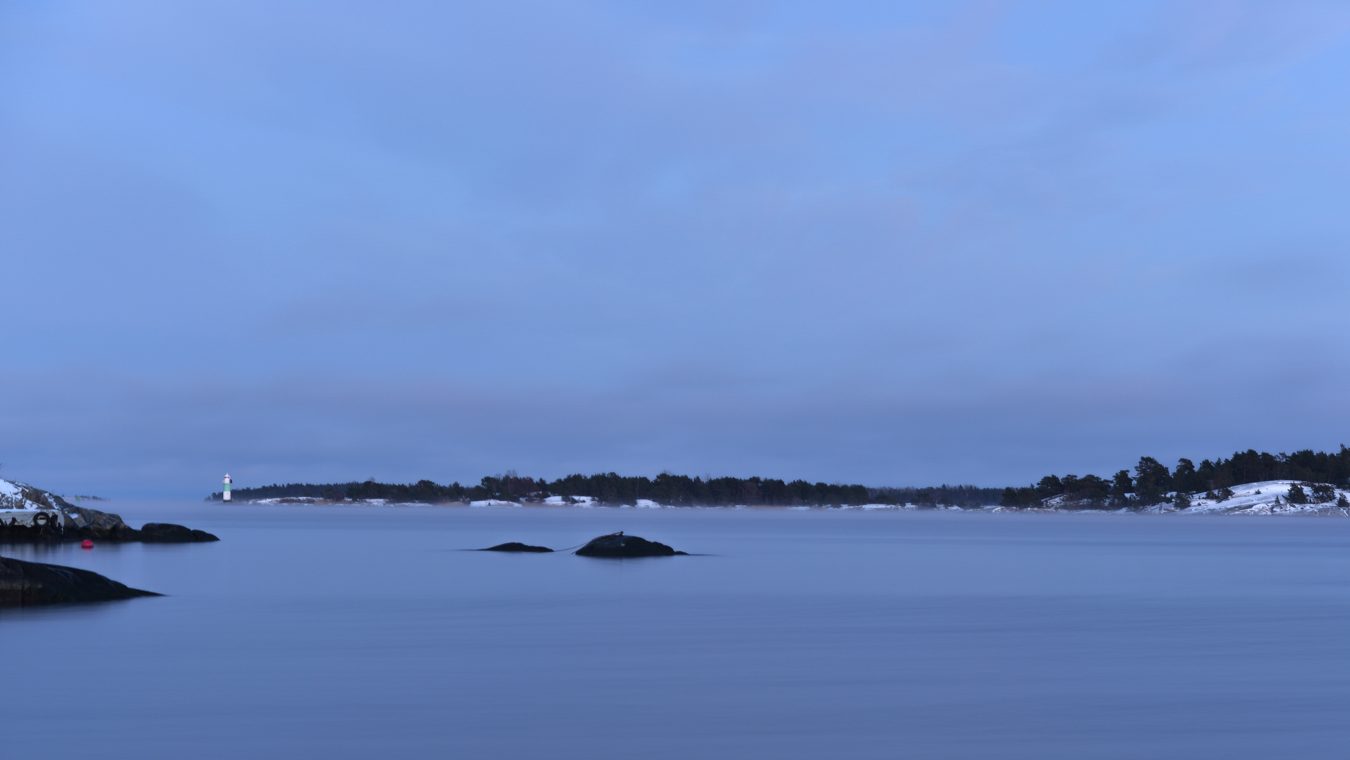 The lighthouse Pålkobb east of Möja island, seen from Möja.